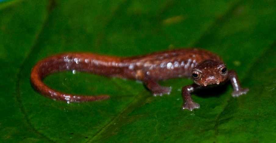 Bolitoglossa pandi